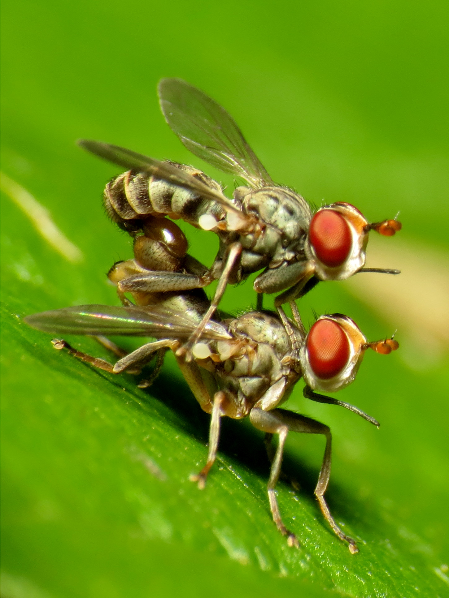 Zodion sp. Rock Creek Park, Washington, DC, USA.